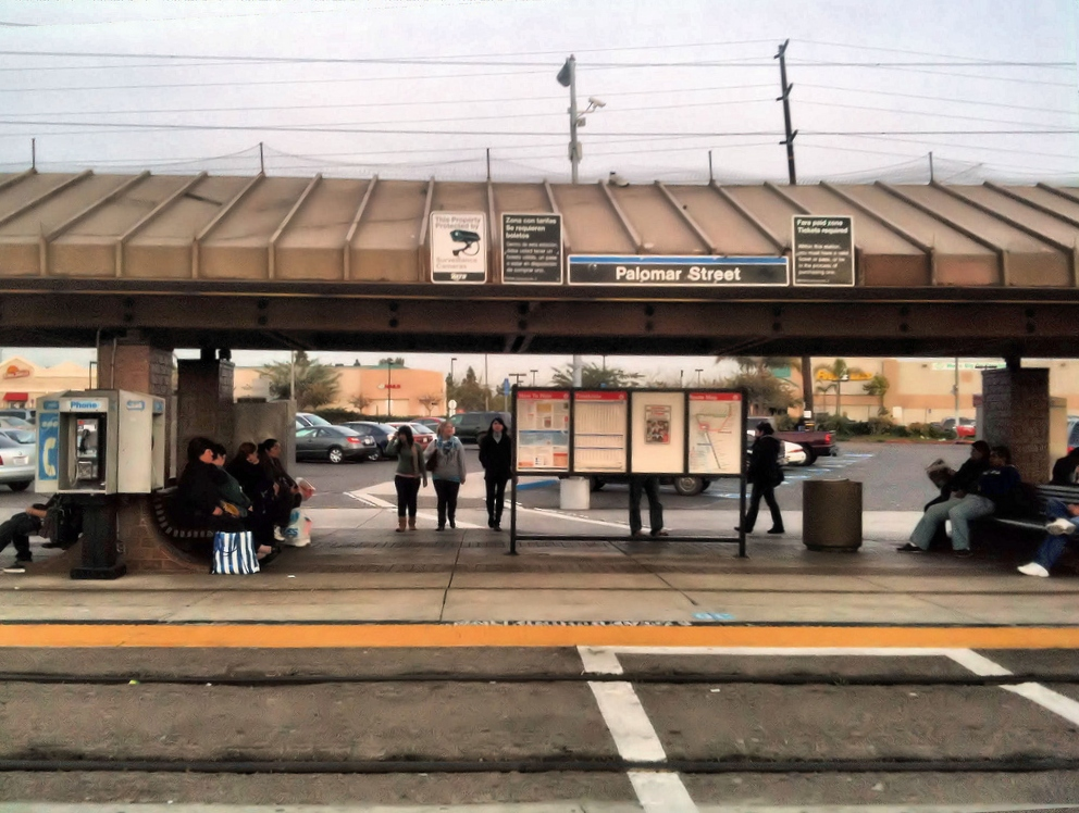 Palomar Street is a stop in Chula Vista, California that is served by the San Diego Trolley.